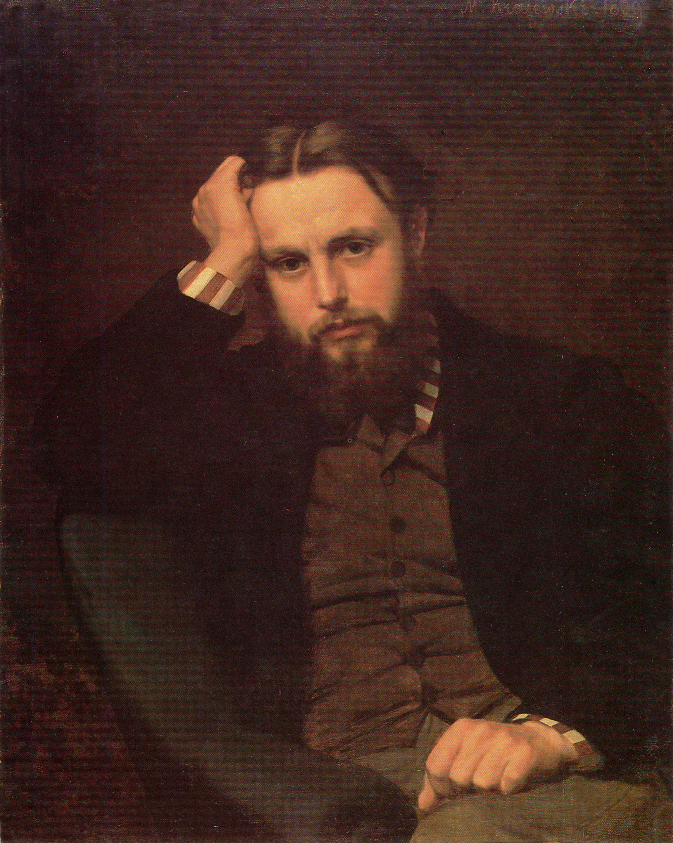 Portrait of Mieczysław Paszkowski